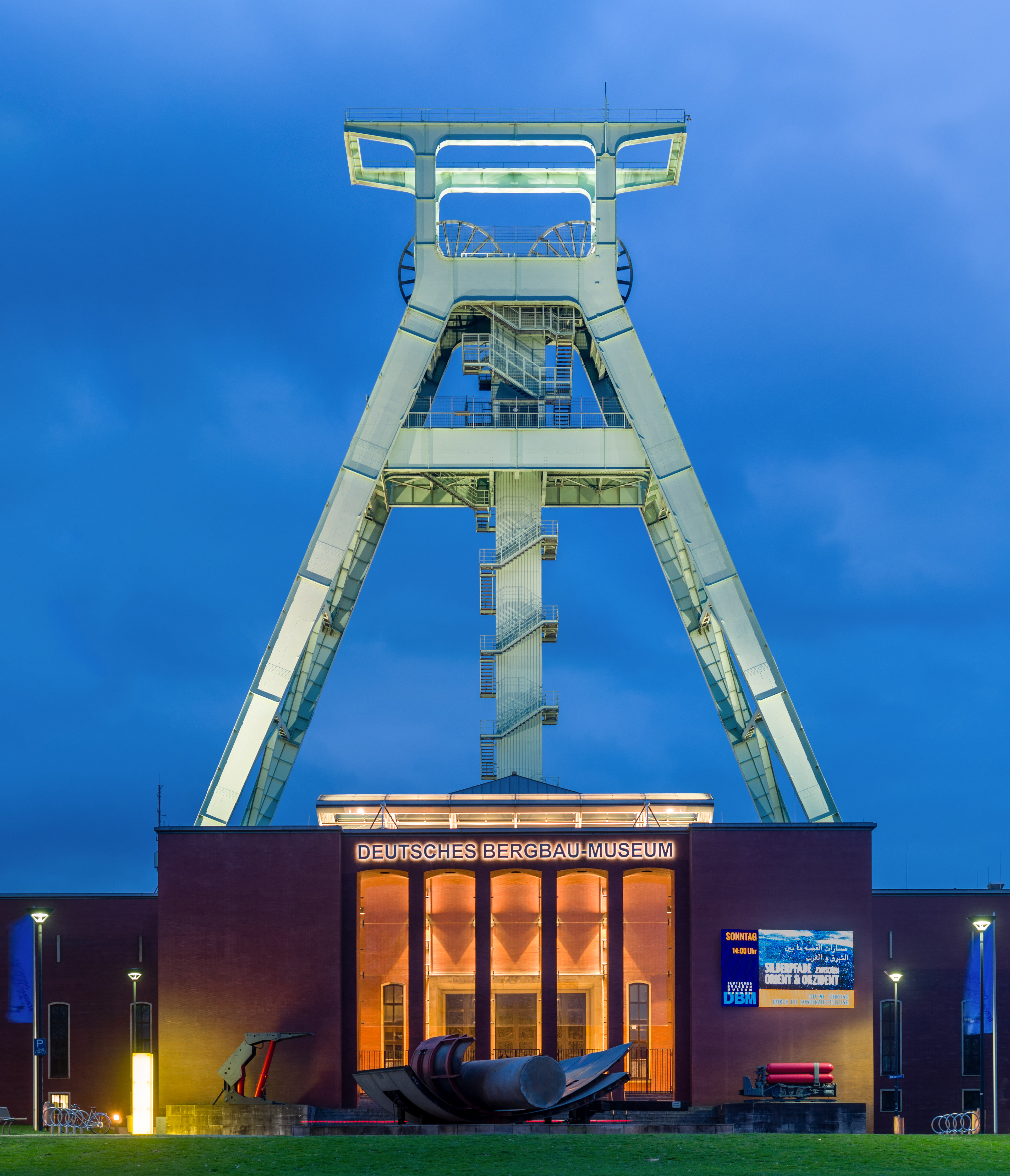 Museum of mining (Bergbaumuseum) in Bochum at blue hour